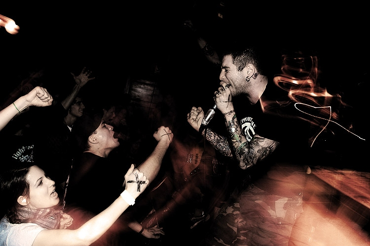 Vegan Straight Edge Band To Kill live